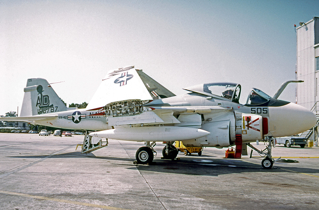 Grumman A-6E Intruder 158787 of VA-42 Squadron at NAS Oceana Virginia in 1973